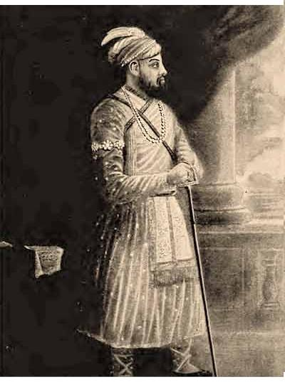 This is the court (self potrait) painting of a Nawab of Bengal 300 years ago.